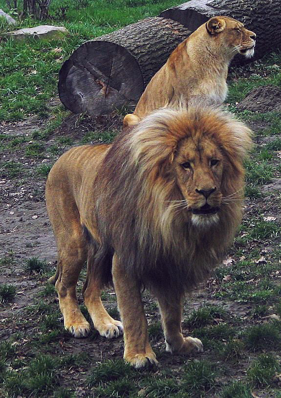 Katanga lion "Matadi" (*2001) and lioness "Luena" (*1998) in the Leipzig Zoo.